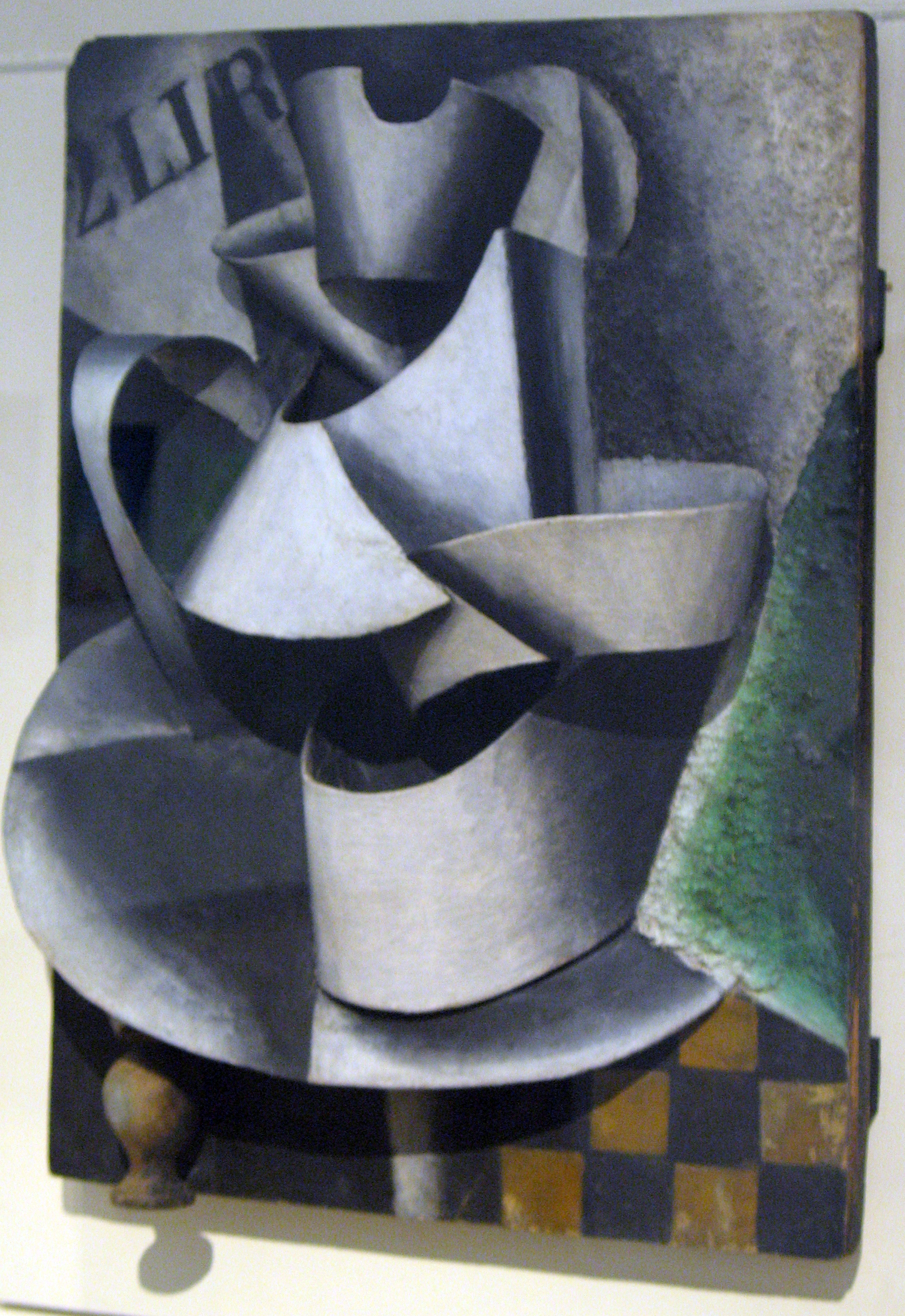 Jug on a table